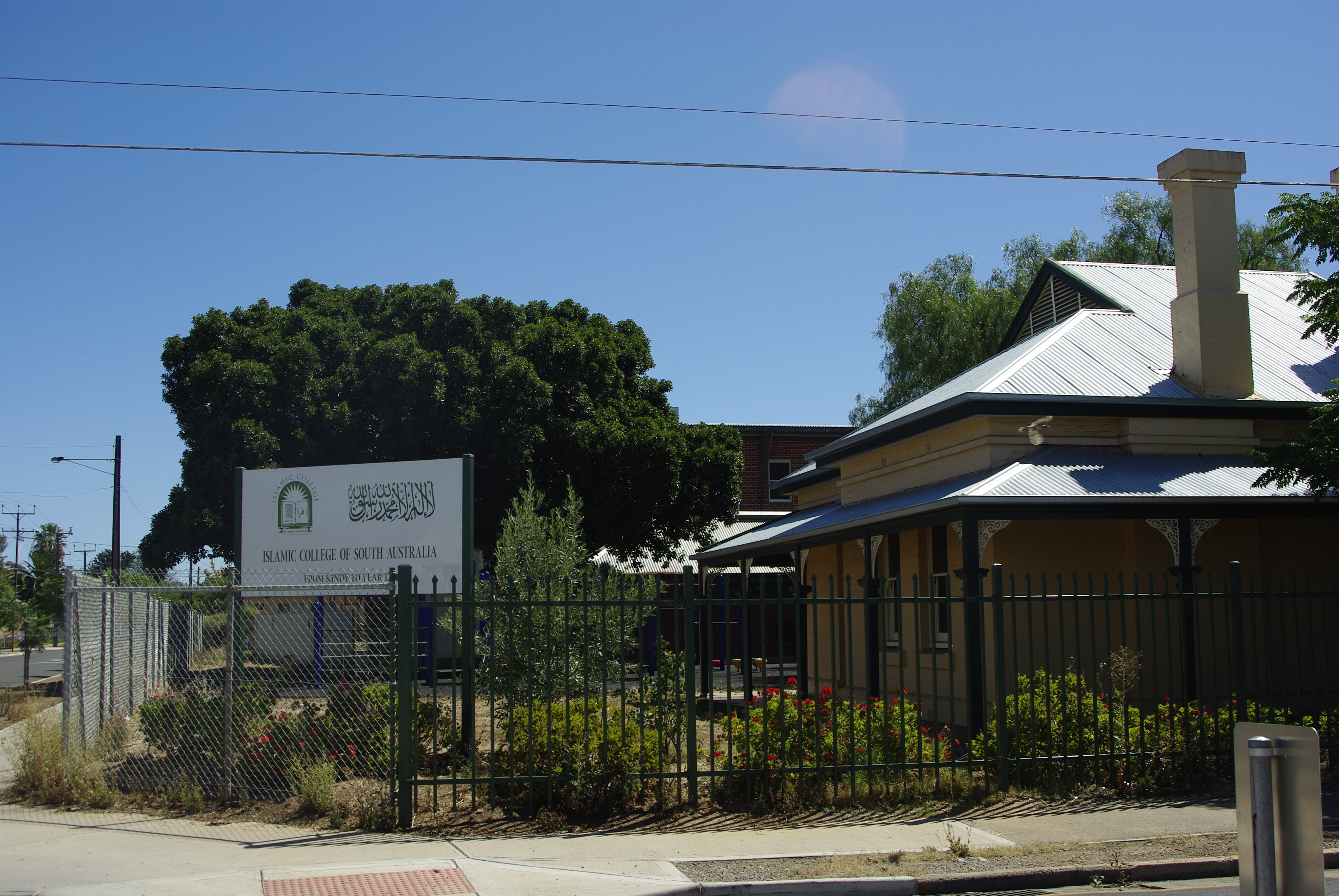 Islamic College of South Australia northwestern frontage